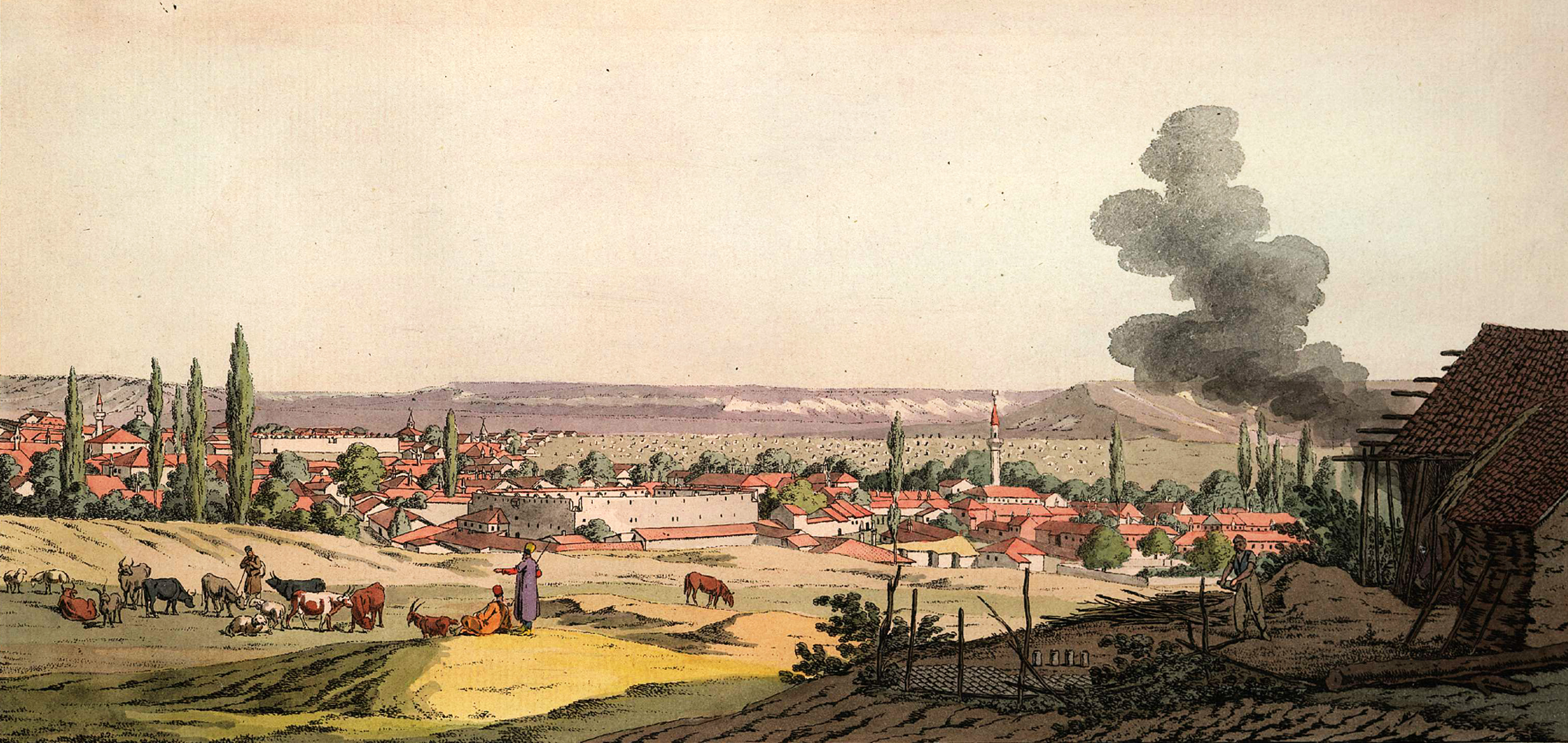 2-13. Вид восточной части города Карасубазара, рисованный с высоты южной стороны; в нем особенно замечательны два больших хана, или магазина; в глубине — огромное кладбище, в настоящее время лишенное надгробных камней; на переднем плане — барсучья нора.